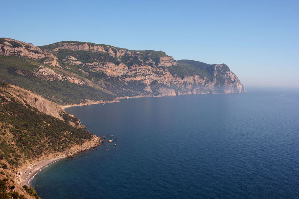 Aya (promontory)